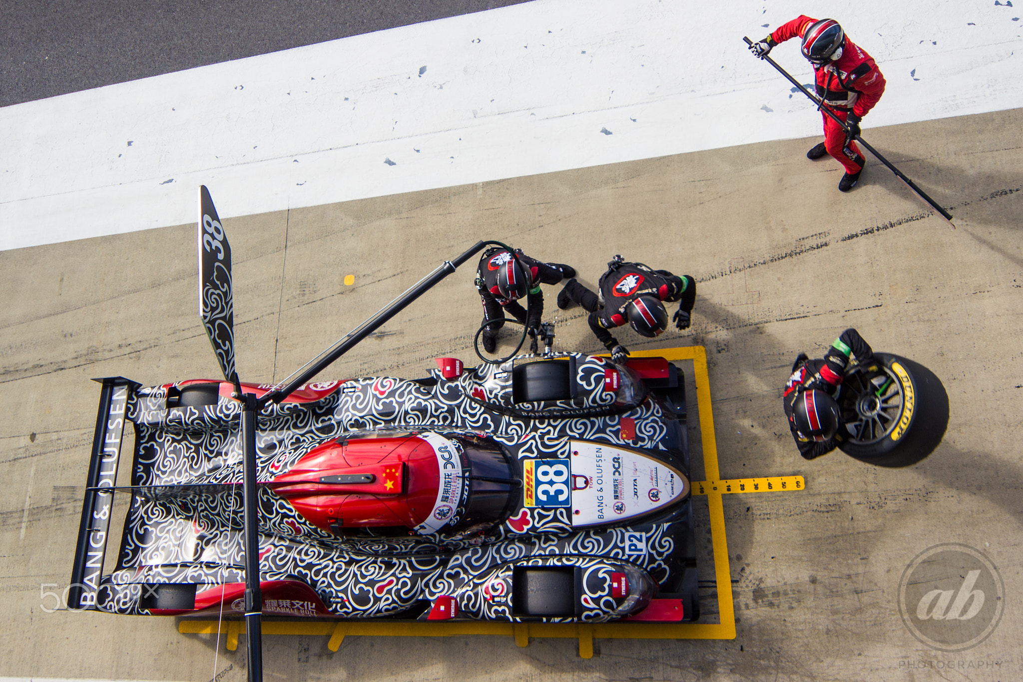 500px provided description: Number 38 Jackie Chan DC Racing pit-stop during round one of the 2017 WEC at Silverstone [#race ,#World Endurance Championship ,#Cars ,#Automotive ,#Porsche ,#Motorsport ,#WEC ,#Jota Sport ,#Sportdcars ,#Jackie Chan DC Racing]